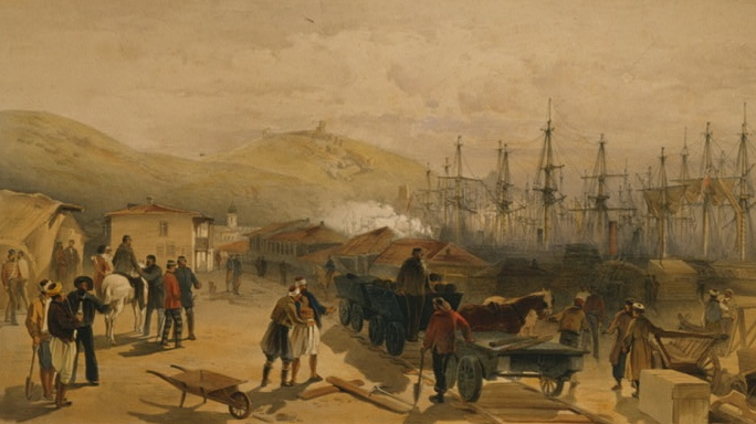 Construction of the railway in Balaklava at the harbor, also shows masts of numerous ships, and on a hill in the distance, the ruins of the old Genoese castle.